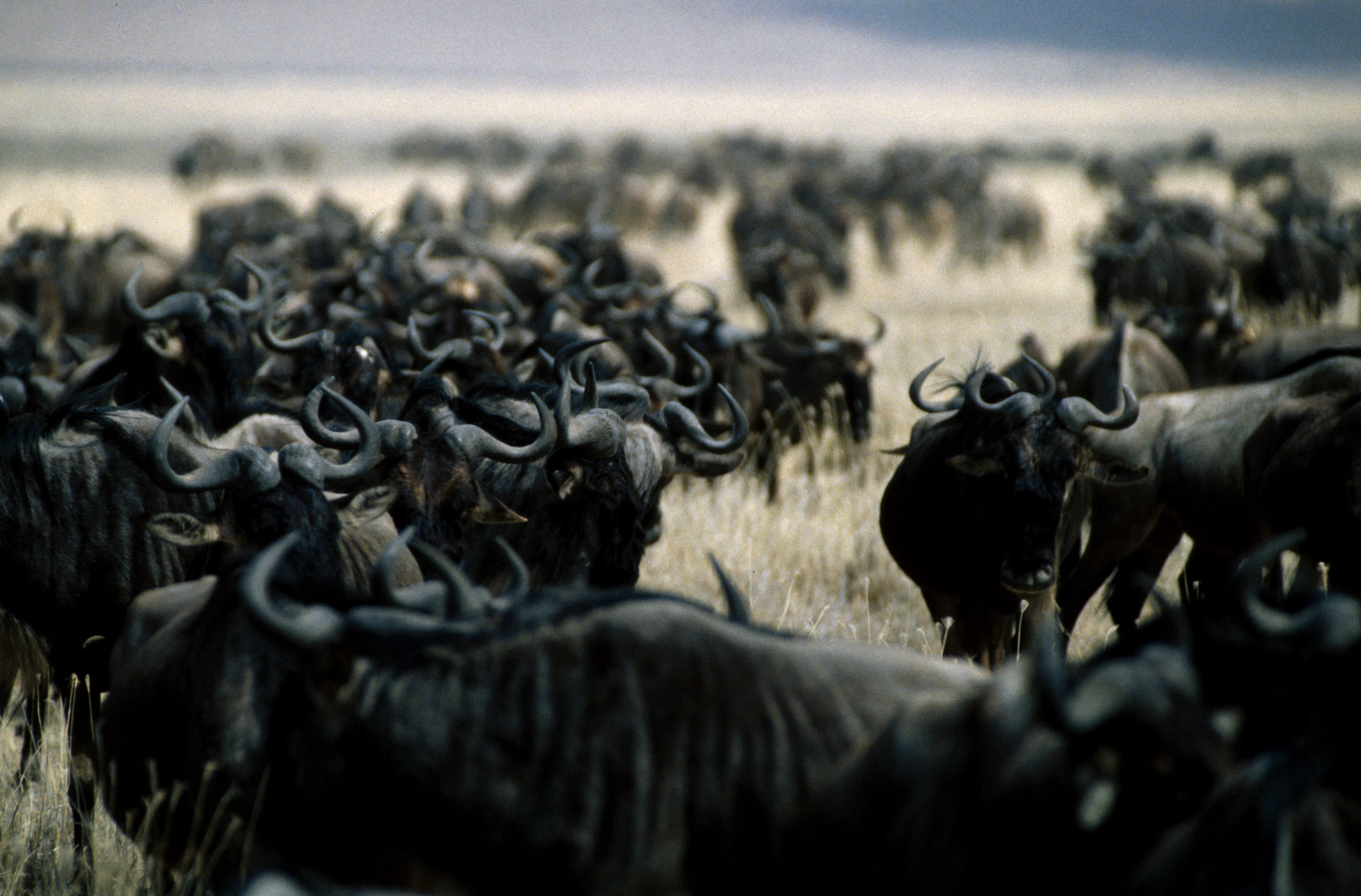 Connochaetes taurinus, Ngorongoro Crater, Wildebeest